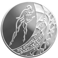 Coin of Ukraine